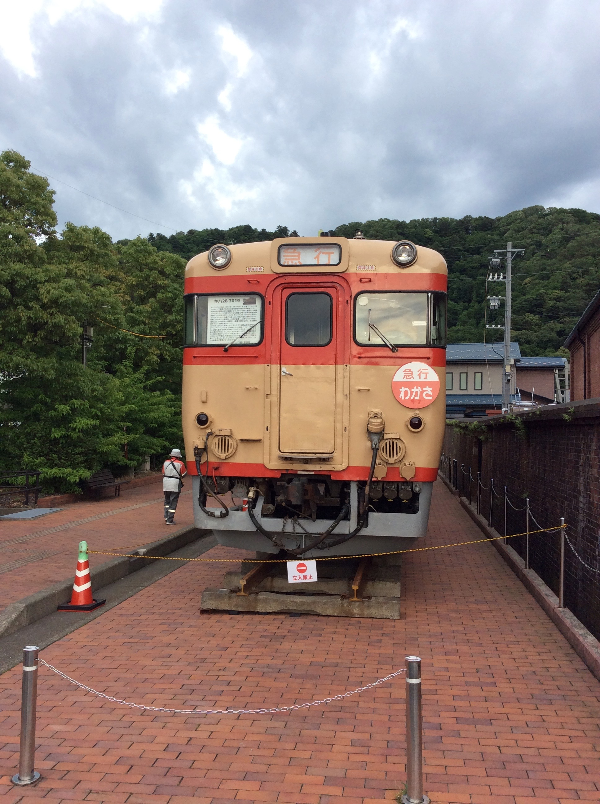 JNR/JR Kiha28 series installed in Tsuruga Red Brick Warehouse